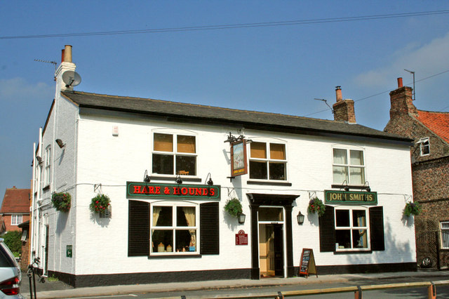 Riccall, Hare and Hounds Public House